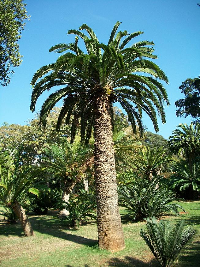 One of the original stems of Encephalartos woodii at Durban Botanic Garden, South Africa.